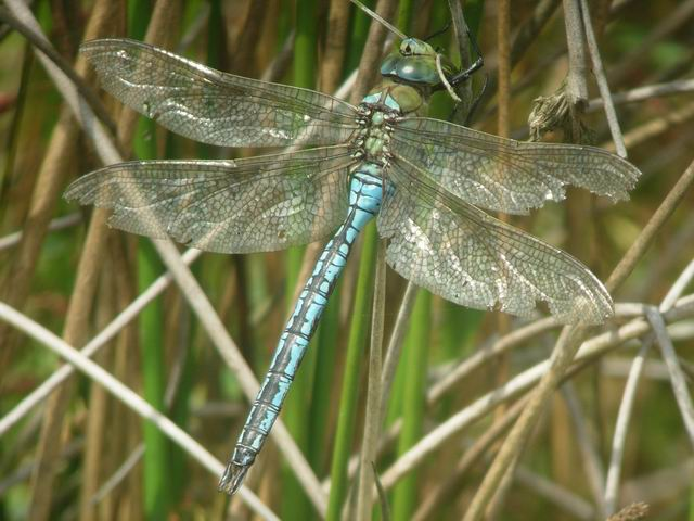 Emperor Dragonfly (Anax imperator) The pool on Cadnam Common is excellent for dragonflies as it has a variety of habitats around the edge, and may have no fish as becomes very dry at times. Late August is quite late in the season for an Emperor to still be out, and you can tell from the wings!